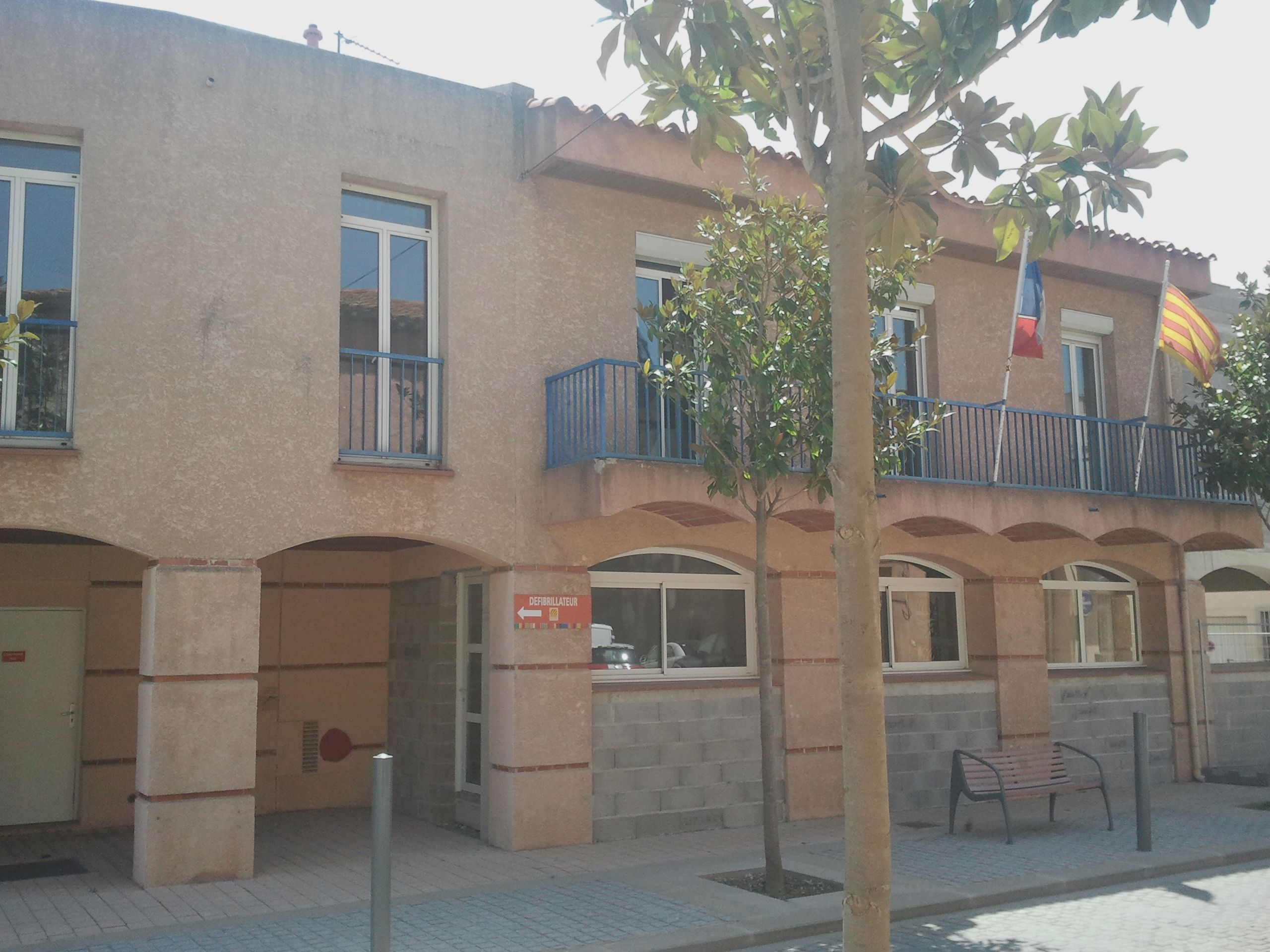 The town hall of Villelongue-de-la-Salanque